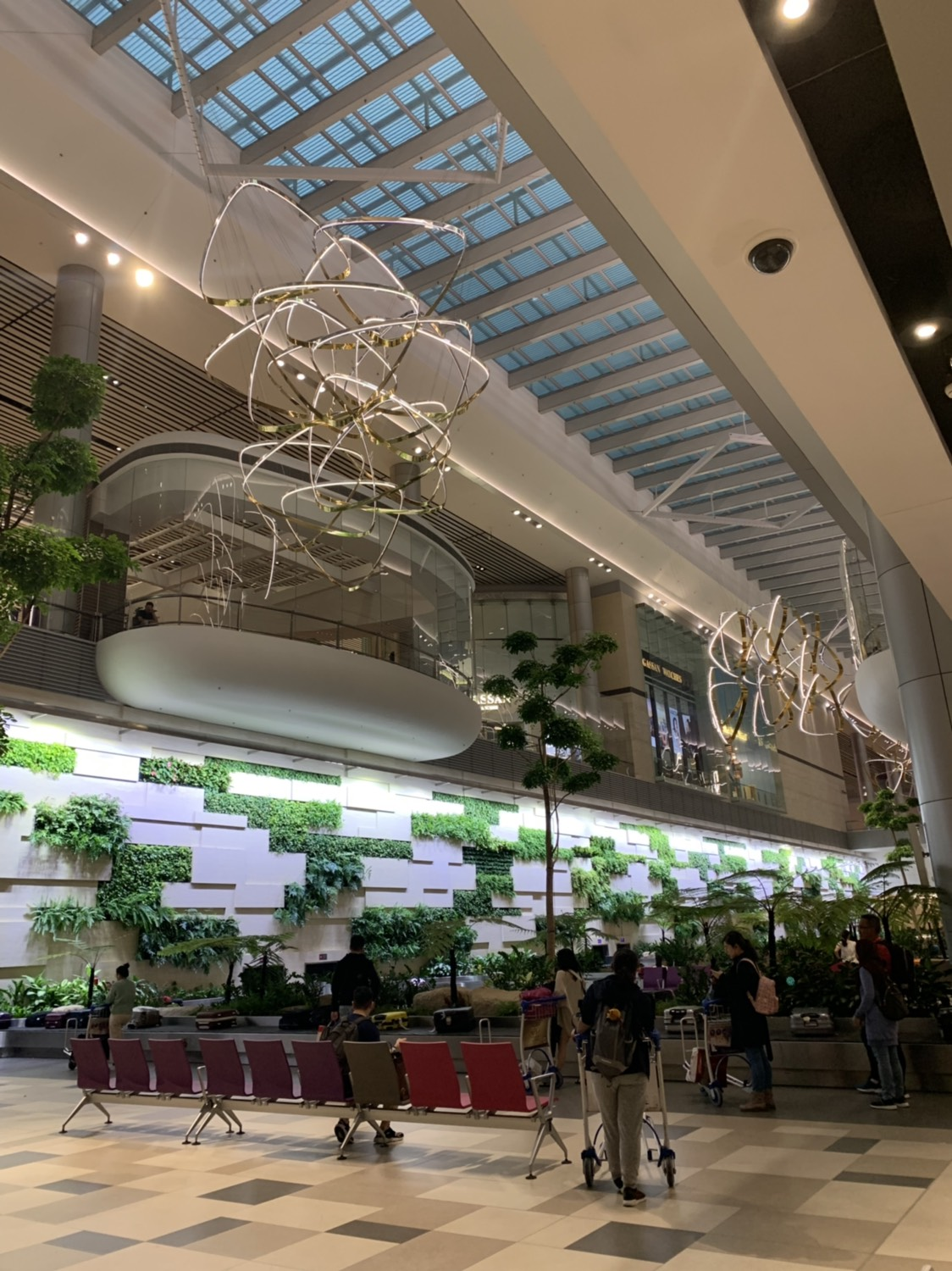 Changi Airport - Terminal 4